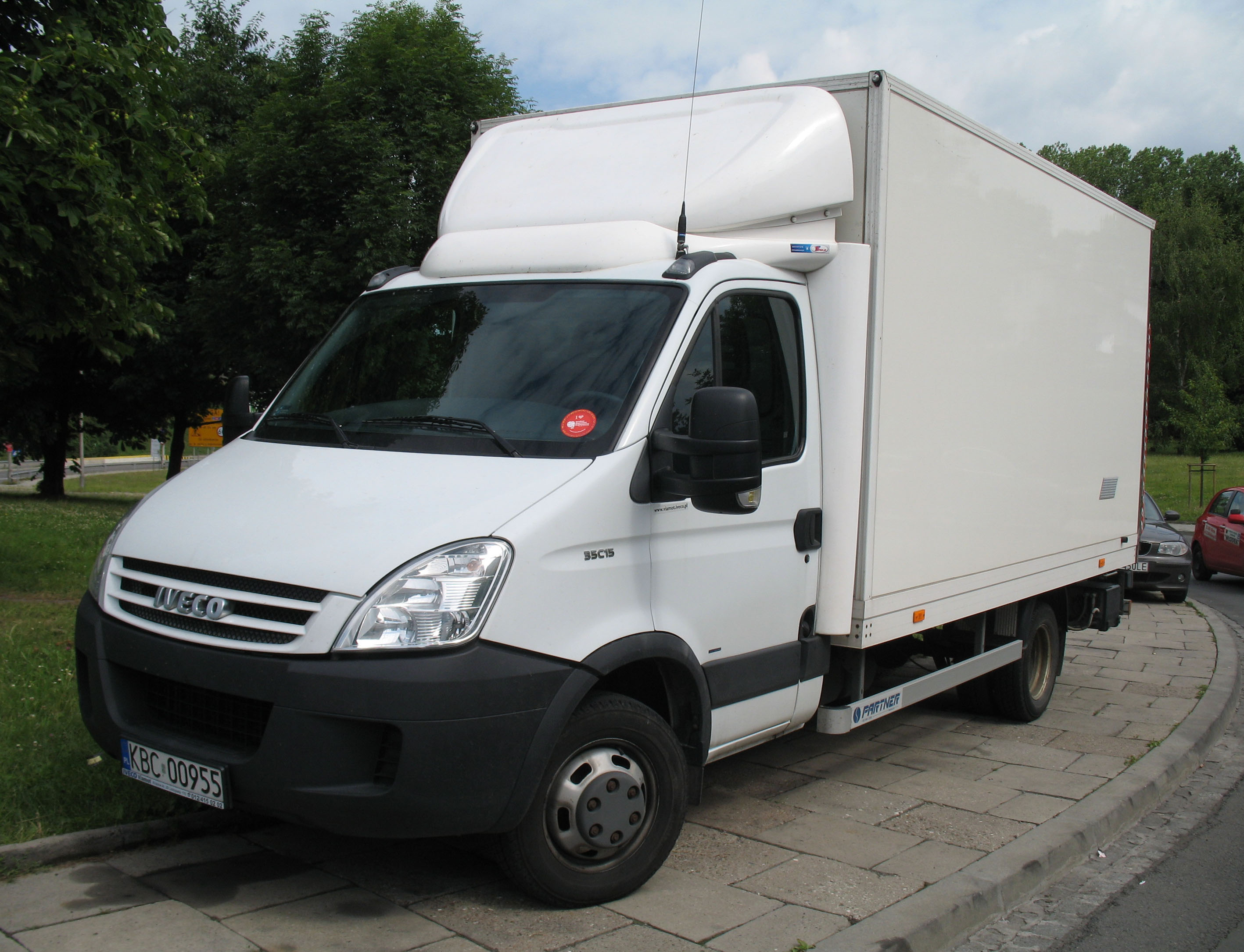 Iveco Daily 35C15 Mk4 light truck in Kraków, Poland.